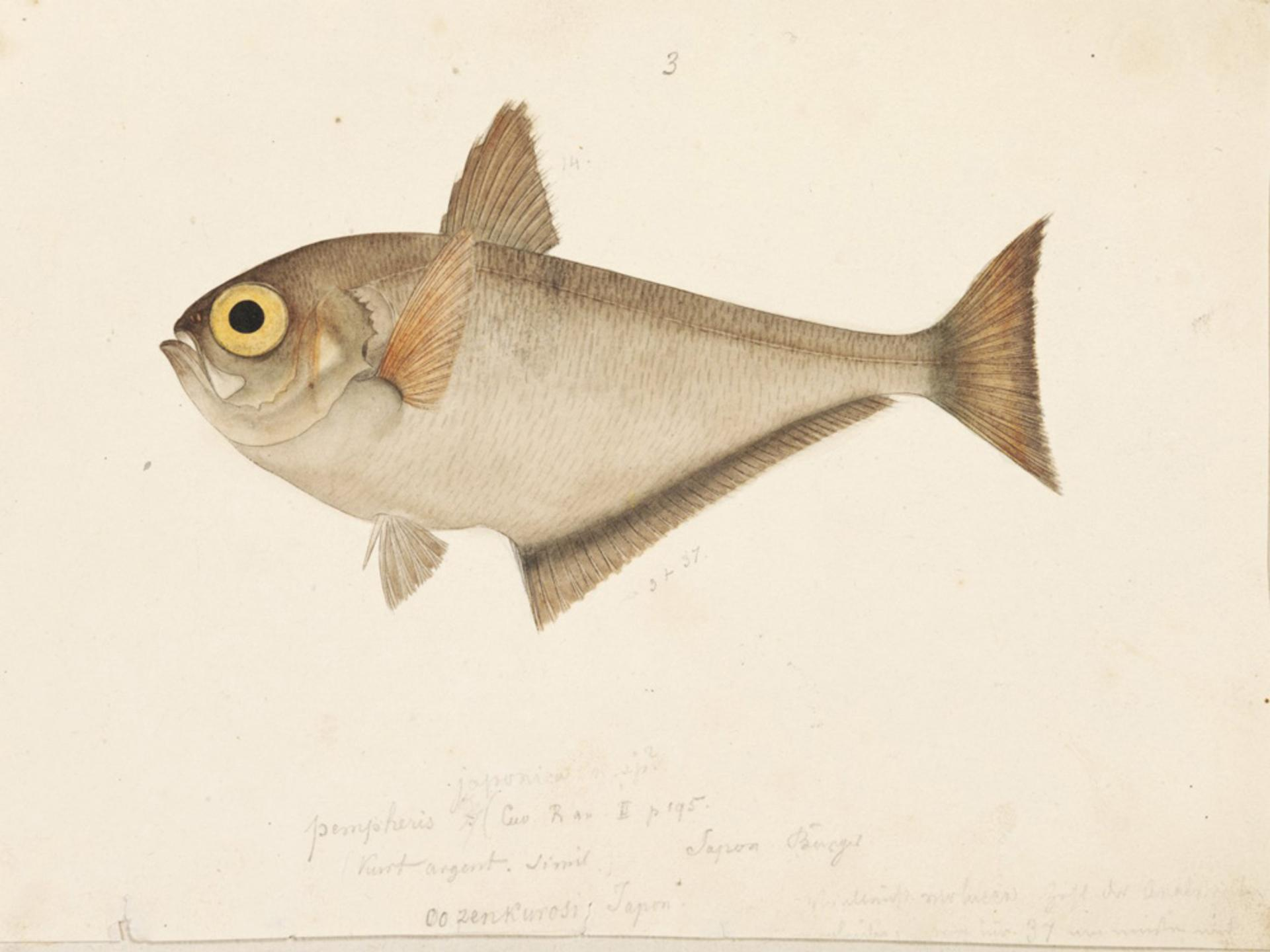 Pempheris xanthoptera Tominaga, 1963